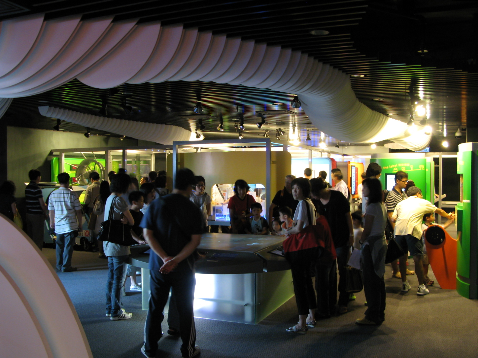 Electrical and Mechanical Services Department Headquarters 機電工程署總部大樓